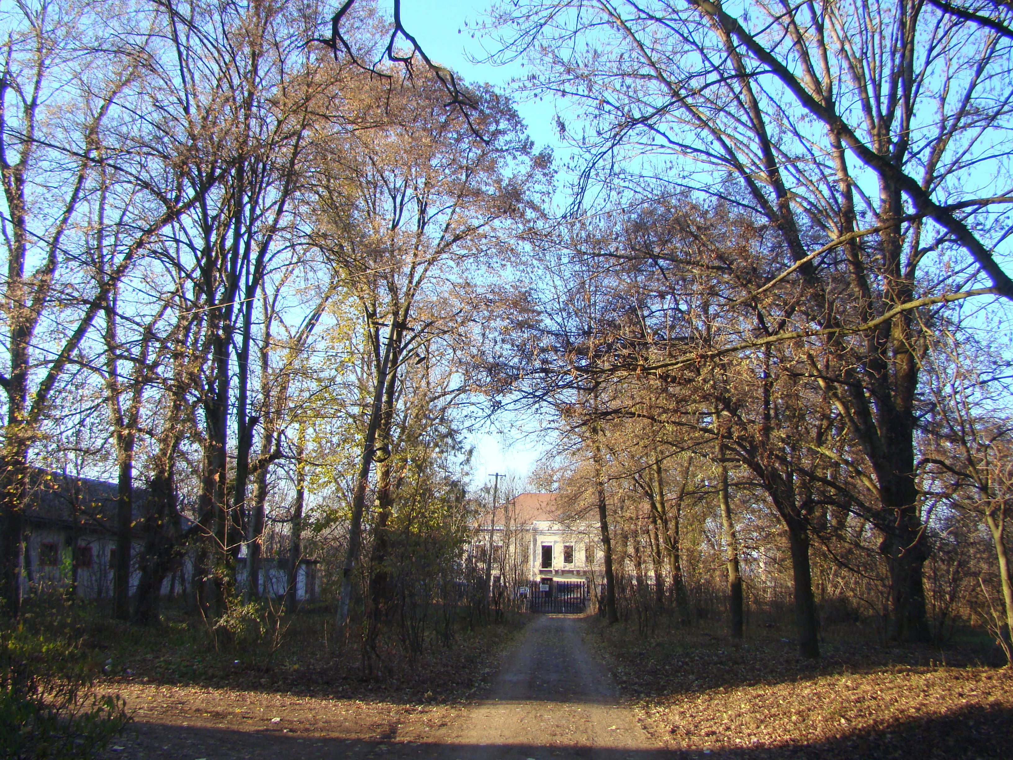 Mariaffi Lajos park in Sângeorgiu de Mureş, Mureş county, Romania